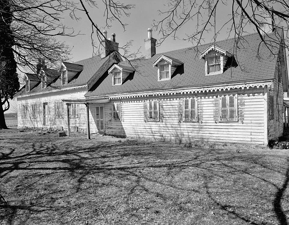 Achmester, Armstrong, New Castle County, Delaware, USA